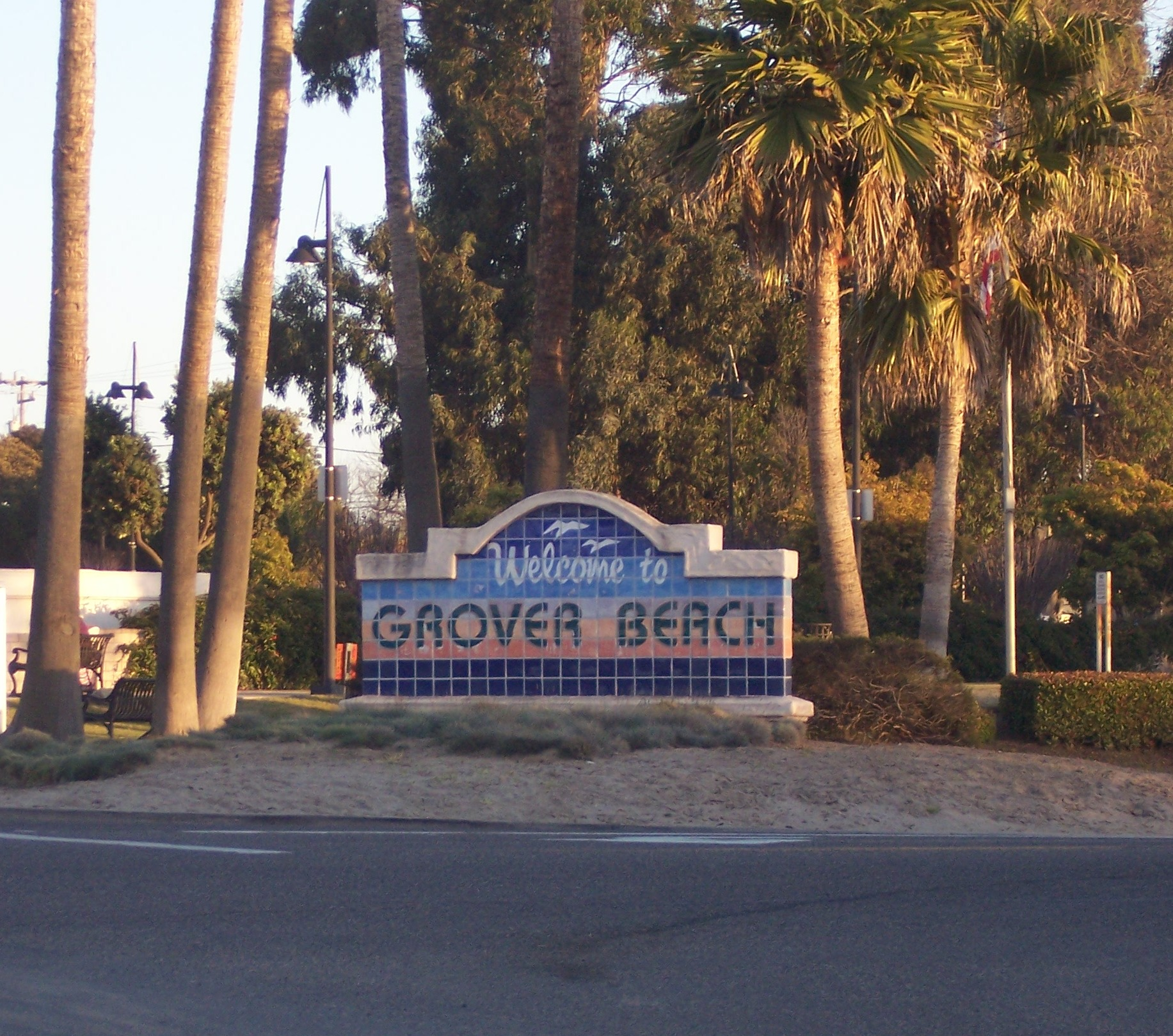 Sign welcoming visitors to the city of Grover Beach, in San Luis Obispo County, California. Located at the corner of Hwy 1 and West Grand Avenue